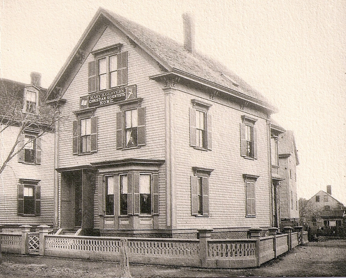 8 Broad Street, Lynn, Massachusetts, home of Mary Baker Eddy, founder of Christian Science